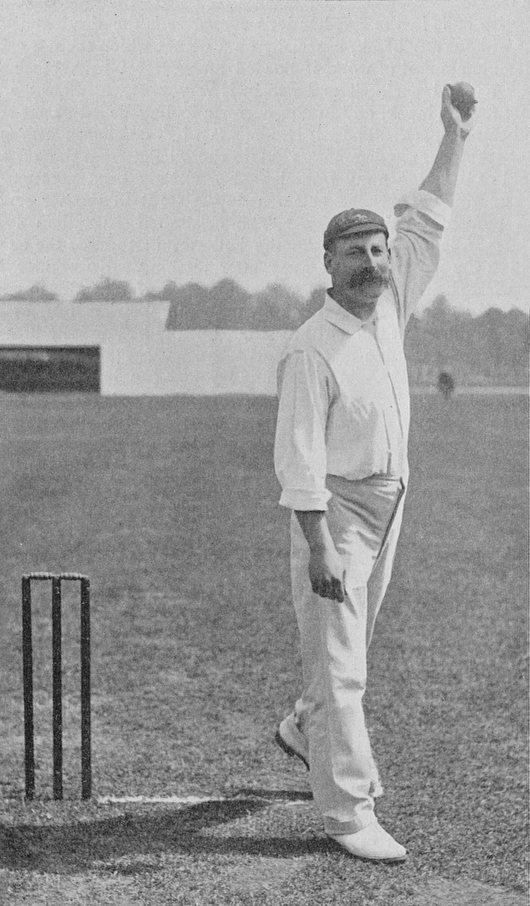 "Martin about to deliver the ball."